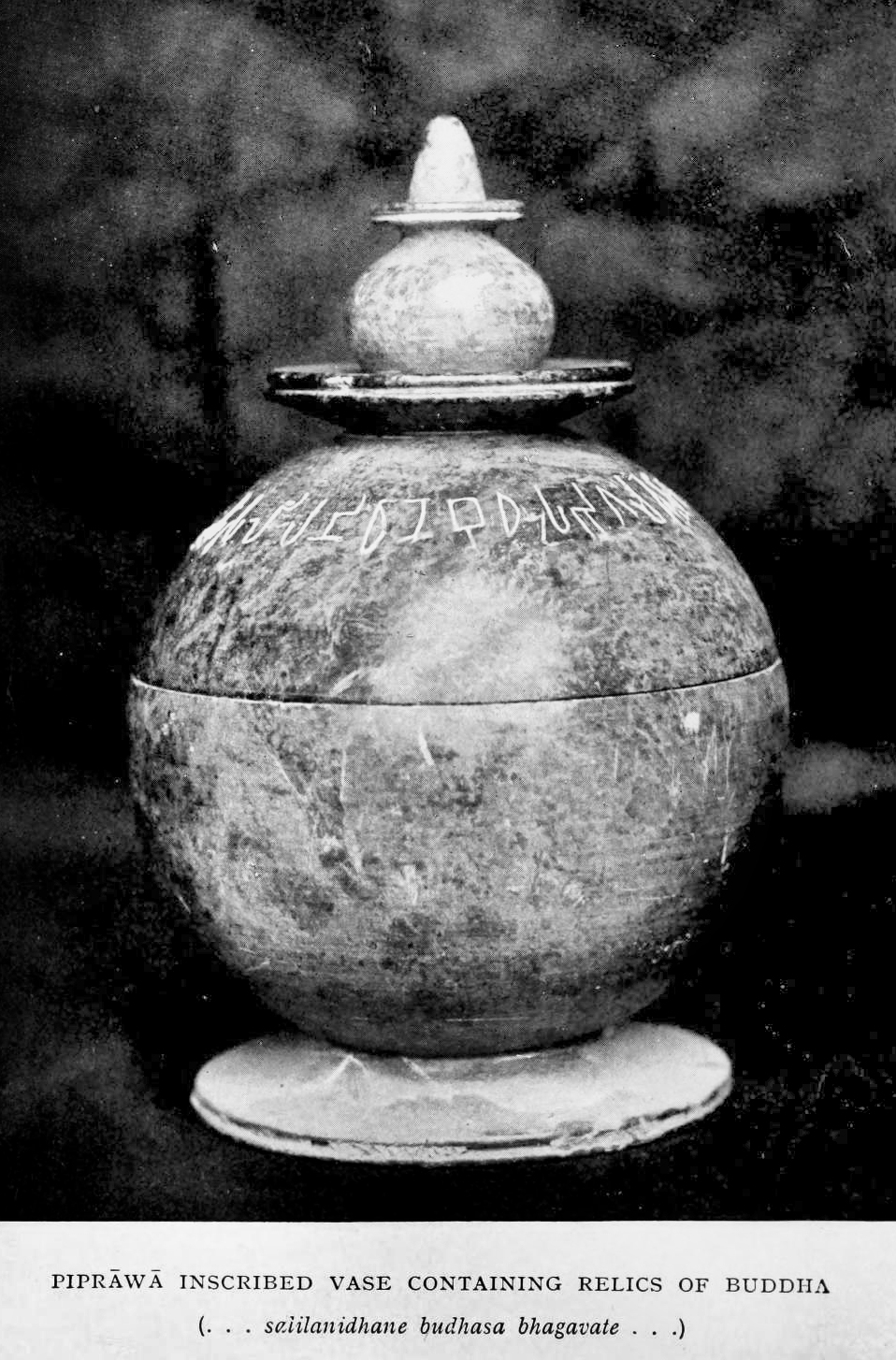 Piprawa vase with relics of the Buddha